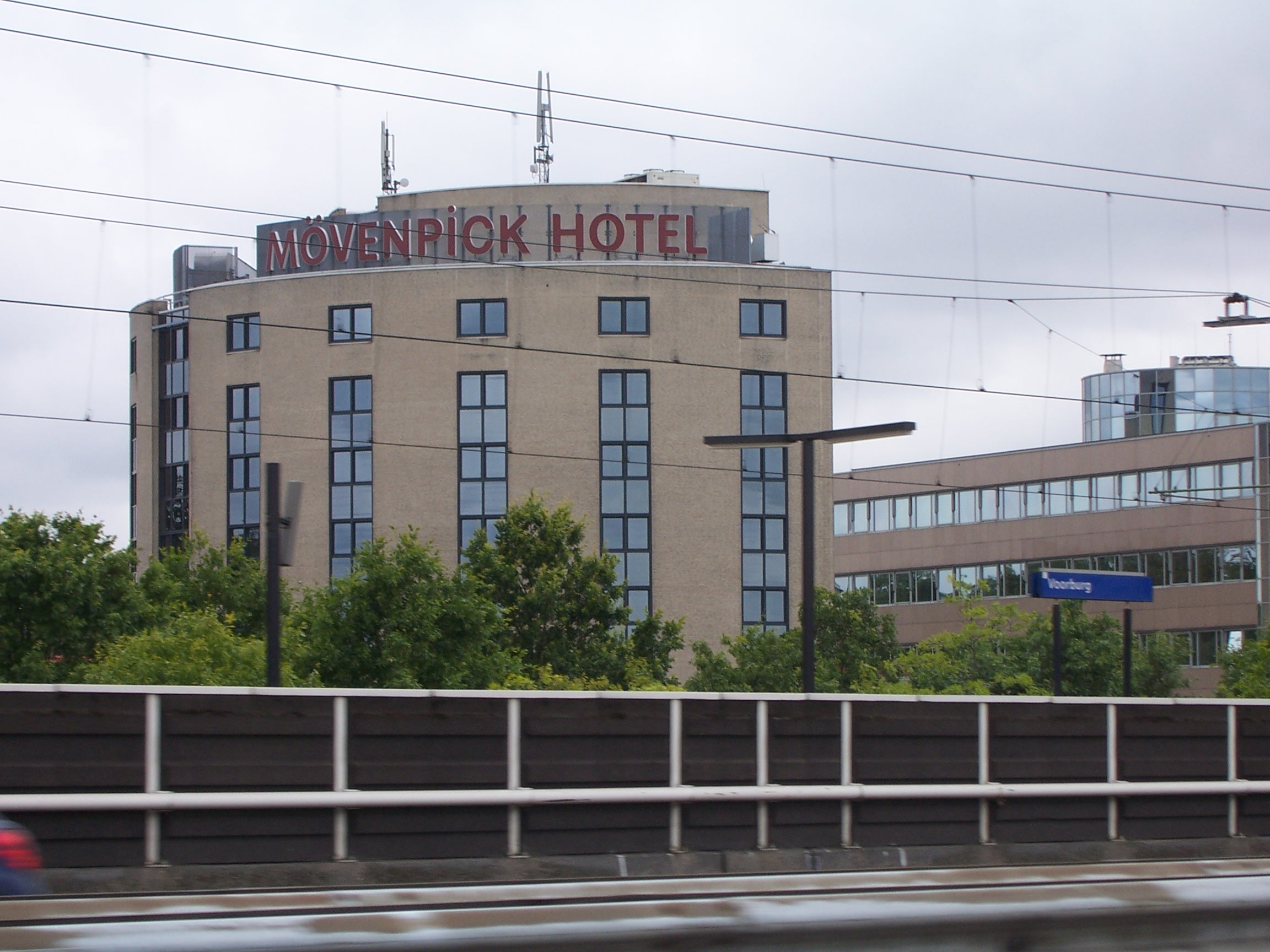 Movenpick Hotel in Voorburg (near The Hague), The Netherlands.